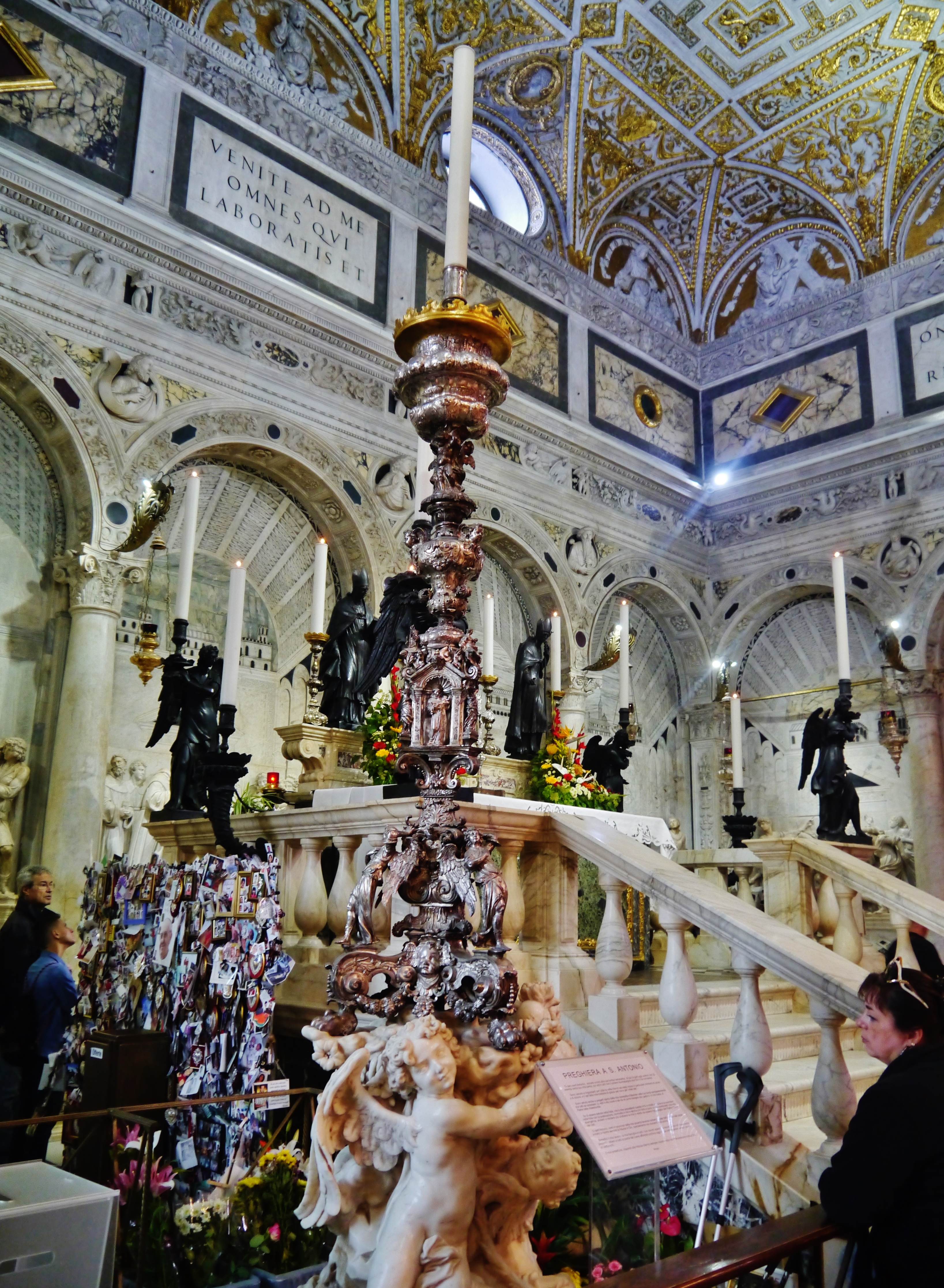 Chapel of St. Anthony of the Basilica of St. Anthony, Padua, Province of Padua, Region of Veneto, Italy